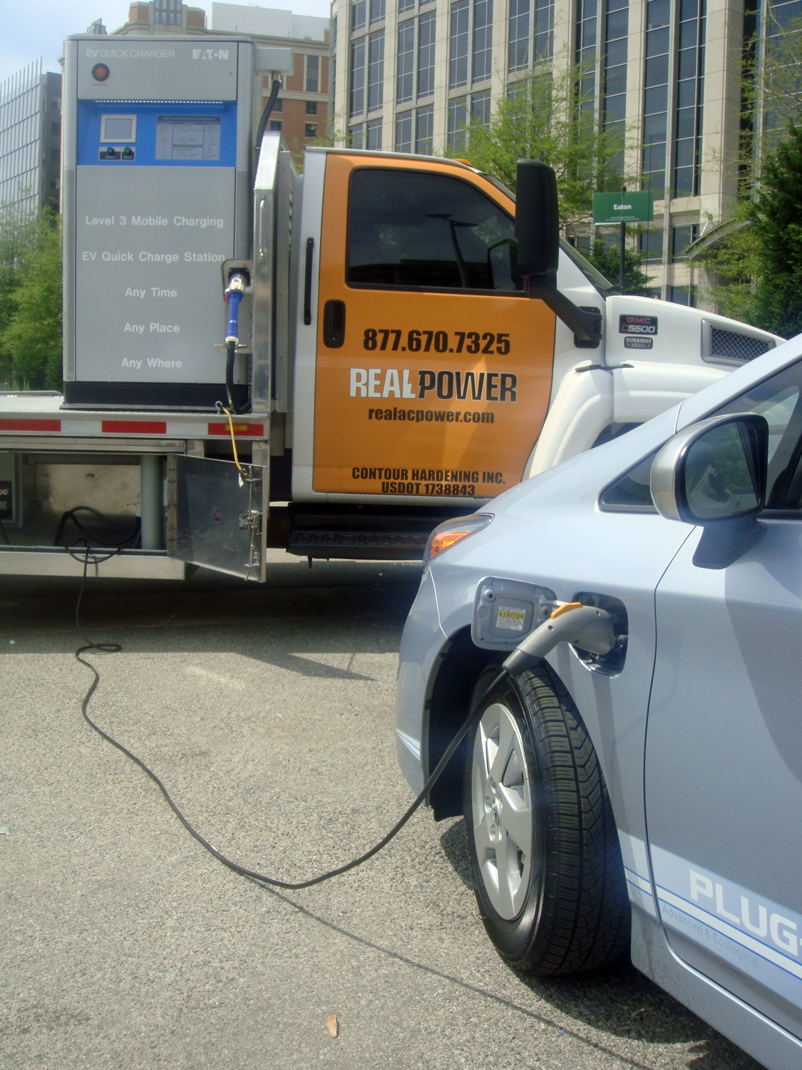 Prius Plug-in Hybrid recharging from a mobile station in the Ride, Drive & Charge event organized by the EDTA, downtown Washington, D.C.